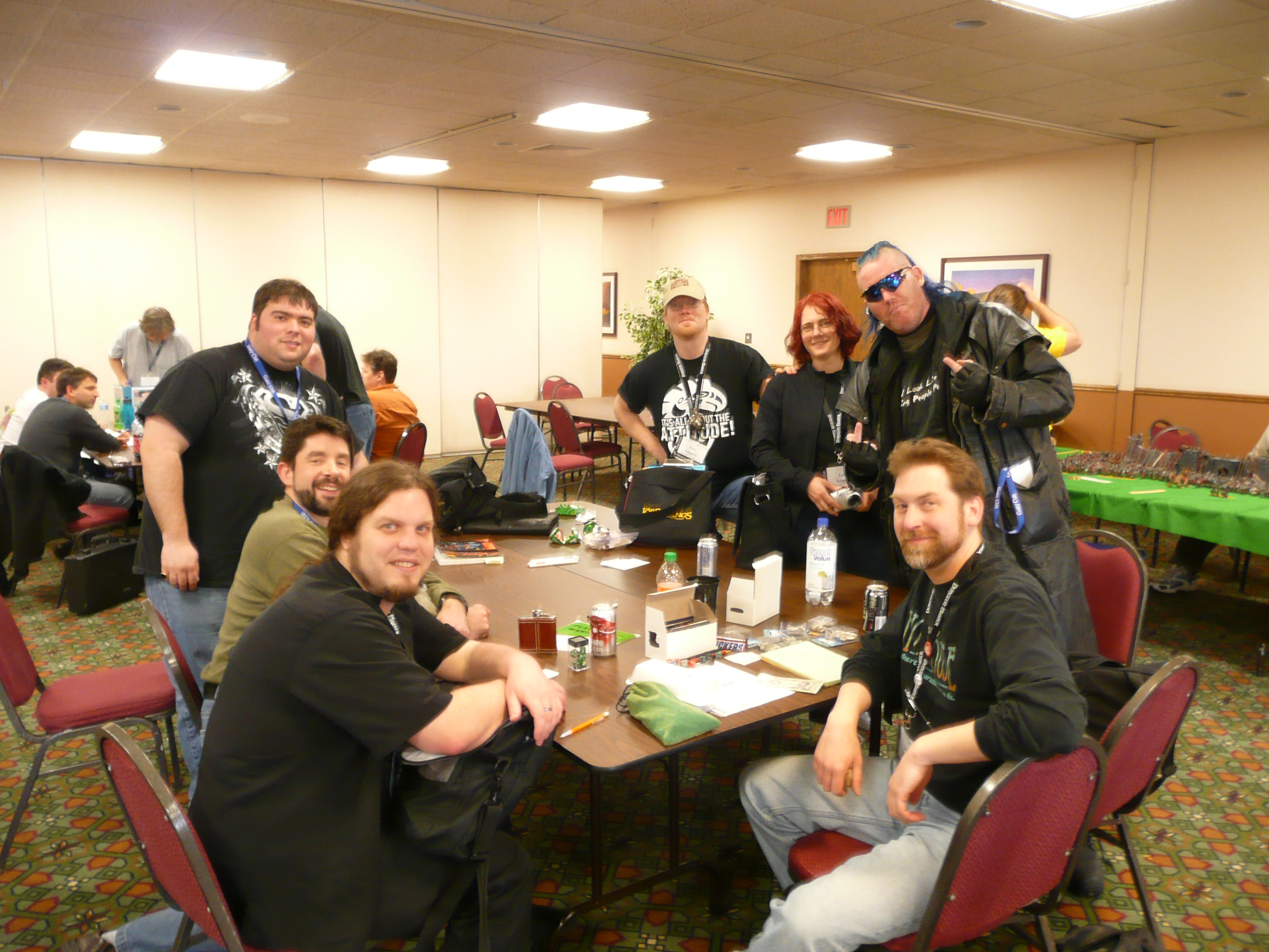 People playing tabletop RPG